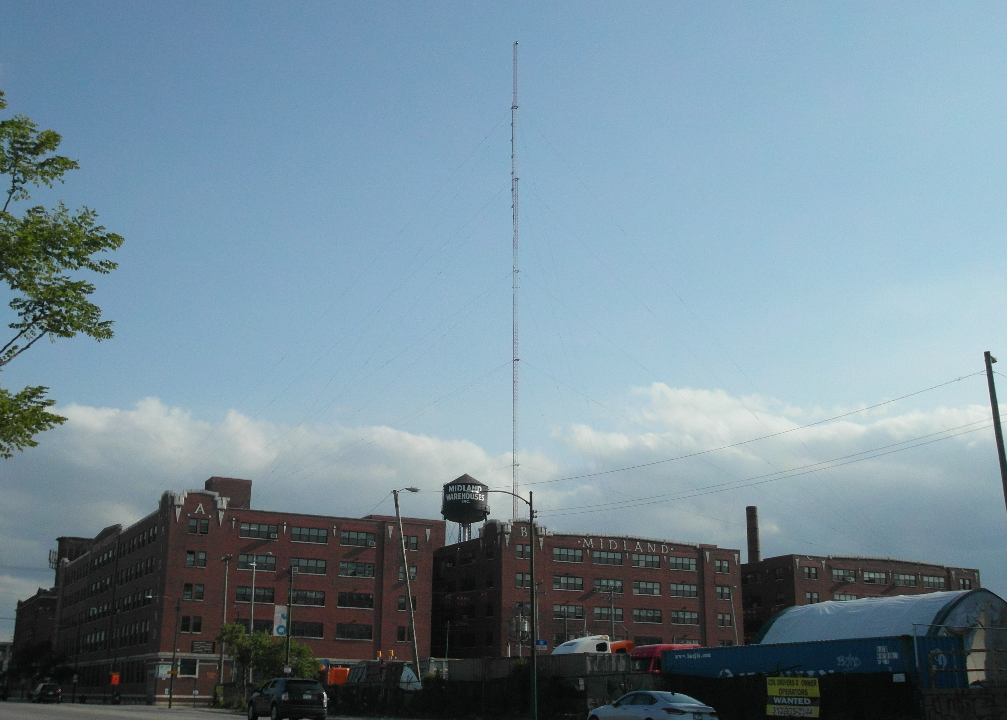 WNTD's tower atop Midland Warehouses at 1500 S Western Ave. in Chicago